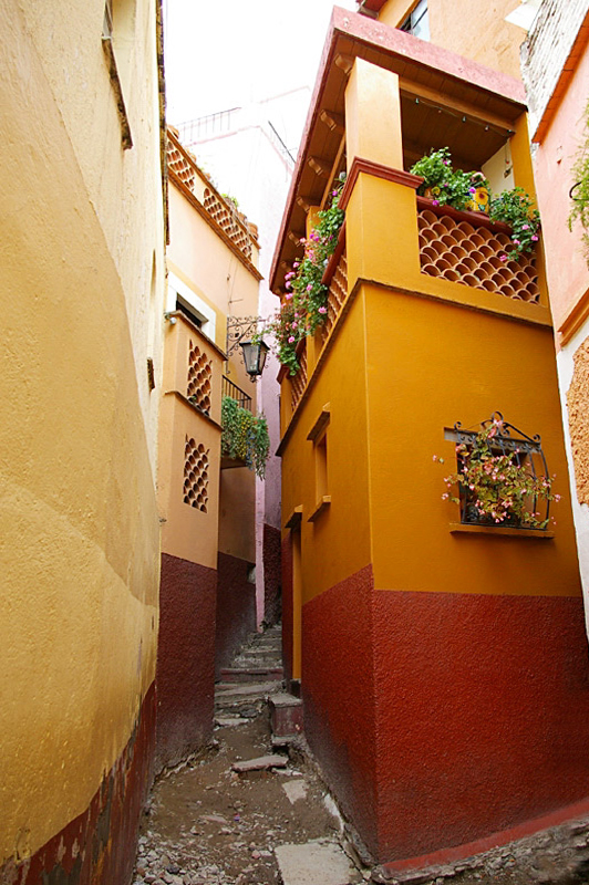 The narrowest Callejon del Beso gives rise to a Romeo and Julliette type of legend about two lovers, Ana and Carlos, who used to lean out their balconies across the valley to kiss each other. Both were brutally murdered by Ana's father, a wealthy Spanish aristocrat, when he discovered her daughter's love for Carlos, a poor miner. Here is what legend says in